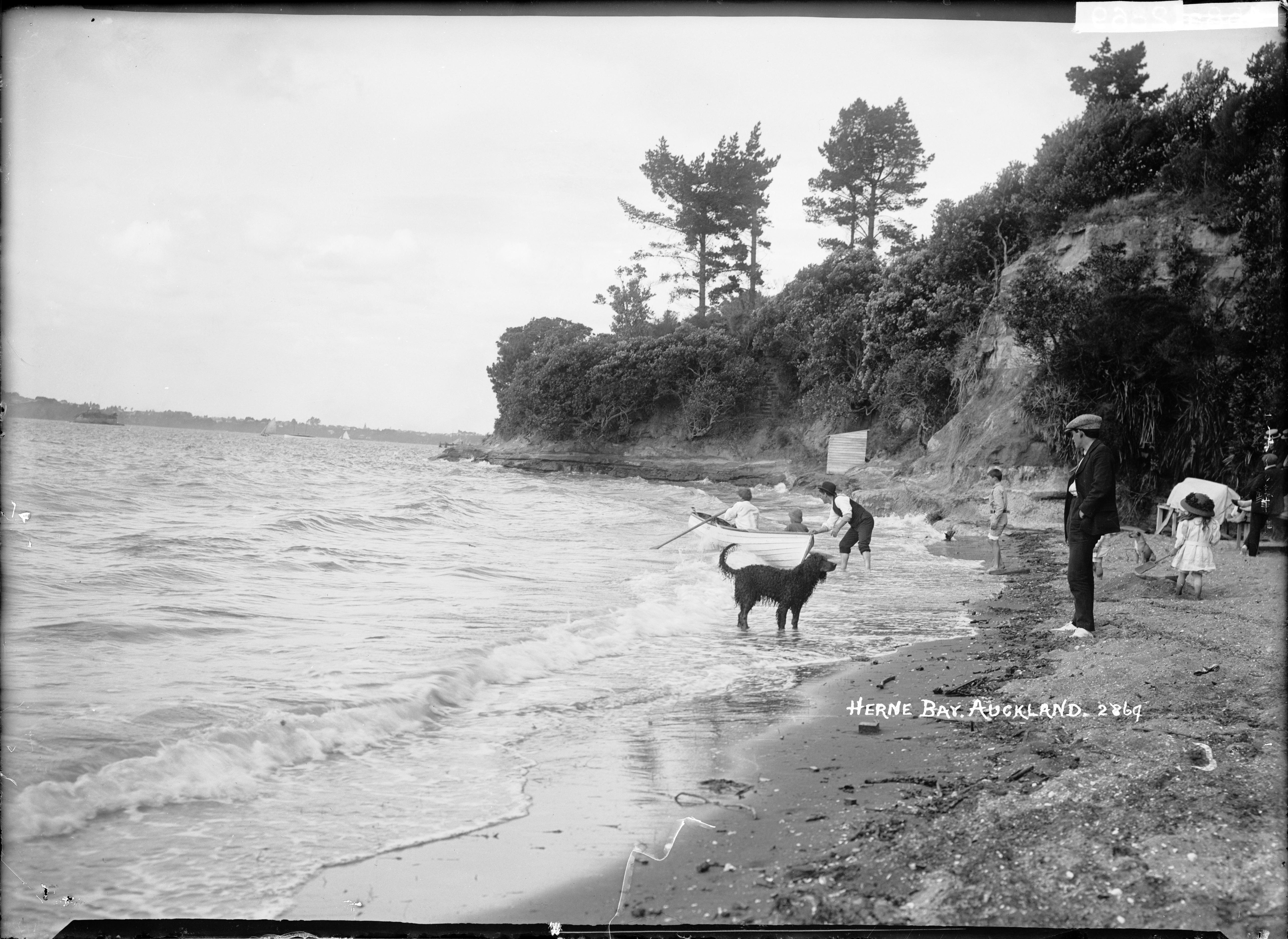 View of a man and a boy in a dinghy in a choppy sea near the water's edge at Herne Bay. A man wearing a hat is holding the dinghy steady while another man and a boy watch from the beach. A small girl is playing on the sand with a spade near by. A black dog is standing in the water and another dog is sitting on the sand in the middle distance. Taken by William A Price in early 1900s. Inscriptions: Inscribed - Photographer's title on negative -bottom right: Herne Bay. Auckland. 2869.. William Archer Price lived and practised in Queen Street, Northcote, 1909-1910. Source: New Zealand Post Office directories Quantity: 1 b&w original negative(s). Physical Description: Dry plate glass negative 4.5 x 6.5 inches Rowboat at Herne Bay, Auckland. Price, William Archer, 1866-1948 :Collection of post card negatives. Ref: 1/2-001264-G. Alexander Turnbull Library, Wellington, New Zealand.